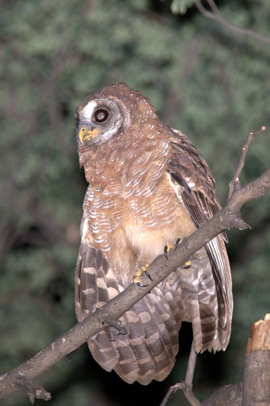 African Wood Owl (Strix woodfordii) perched on a branch in Botswana.